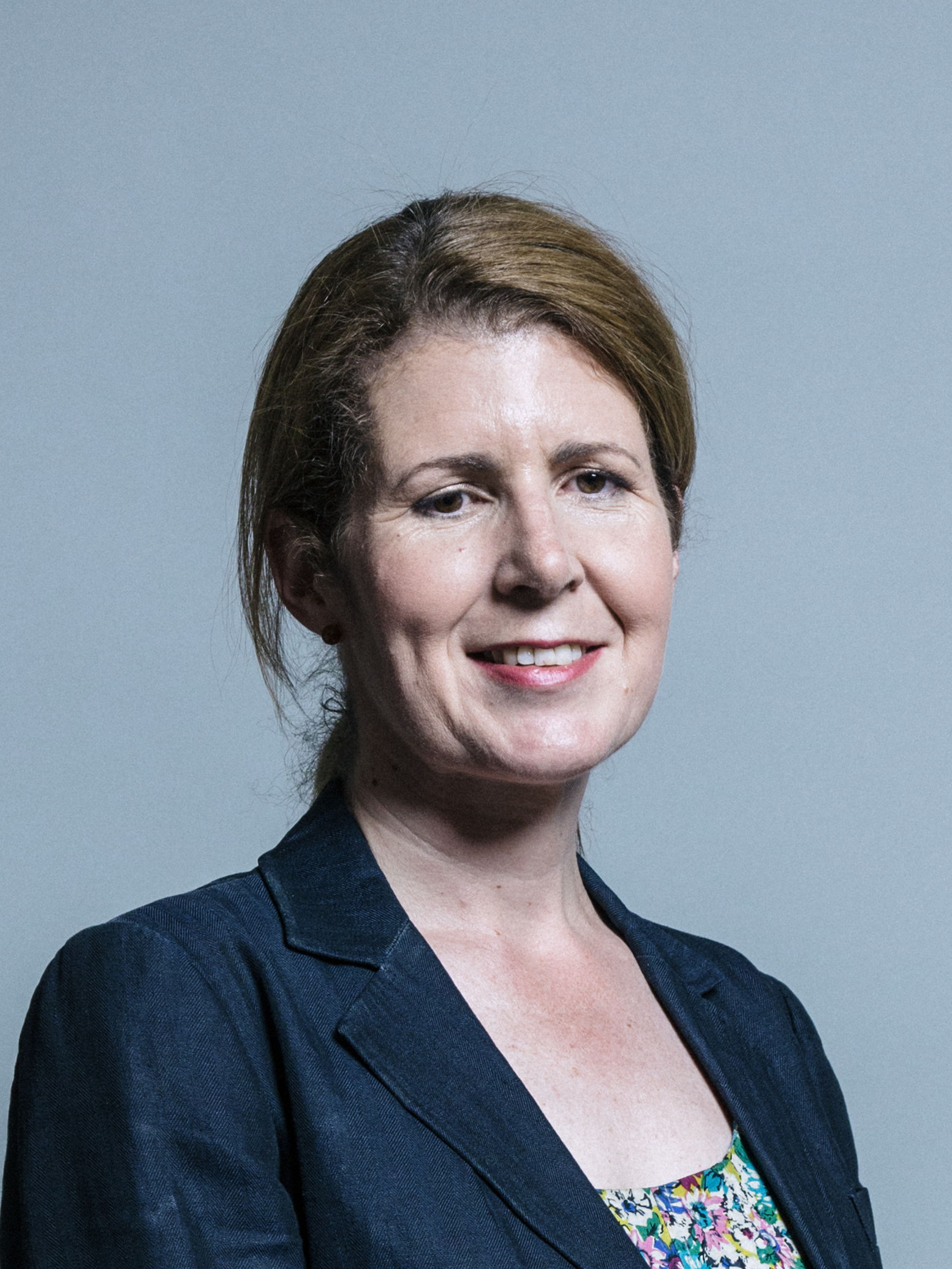 Official portrait of Jenny Chapman